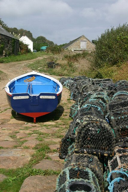 Lobster pots at Penberth Cove Lobster fishing is still carried out at Penberth Cove (see 178014).